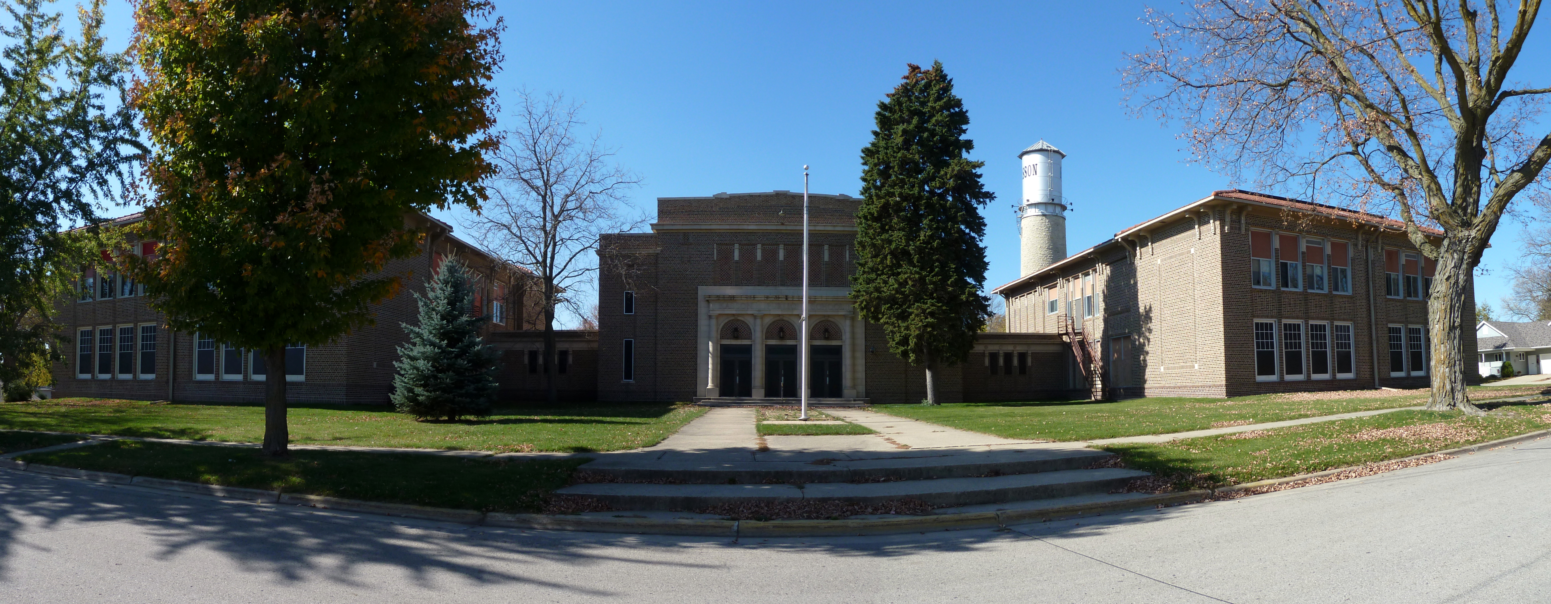 Kasson Public School (with Kasson Water Tower in the background), Kasson, Minnesota, USA.